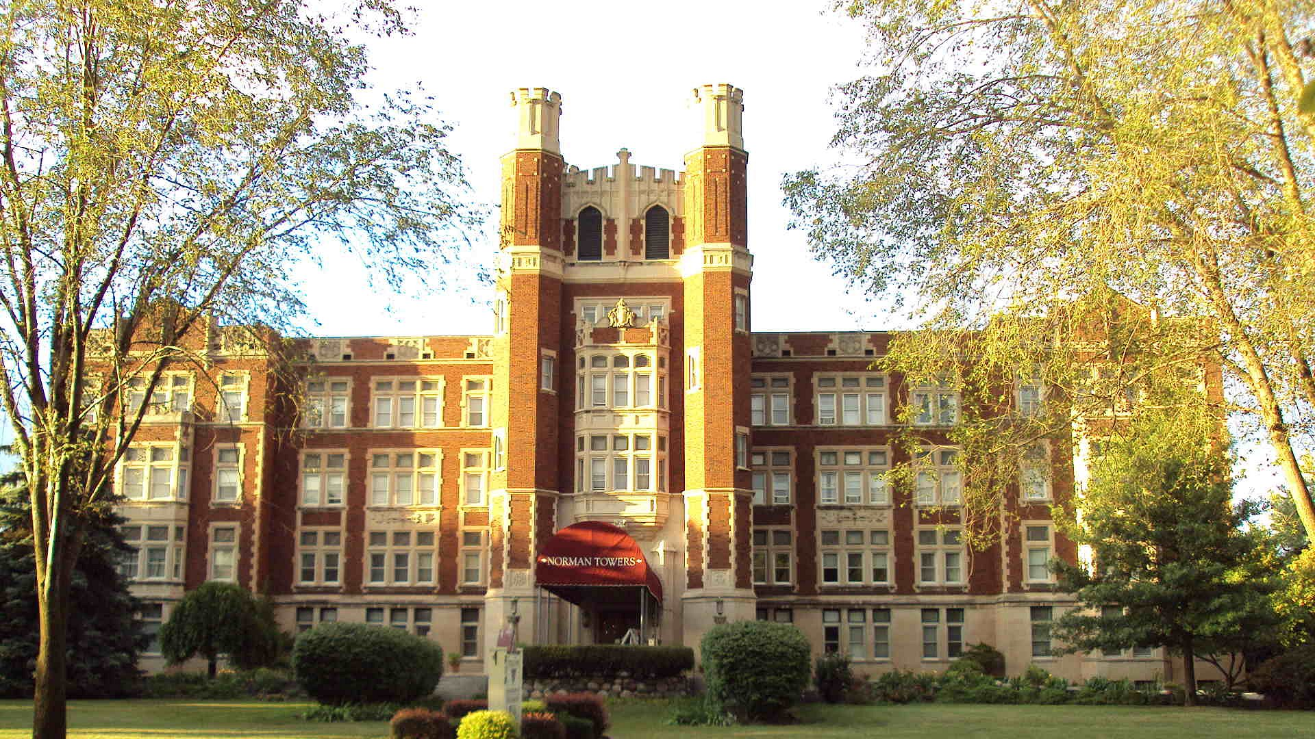 NormanTowers — Monroe, Michigan. Gothic revival architecture in Michigan.